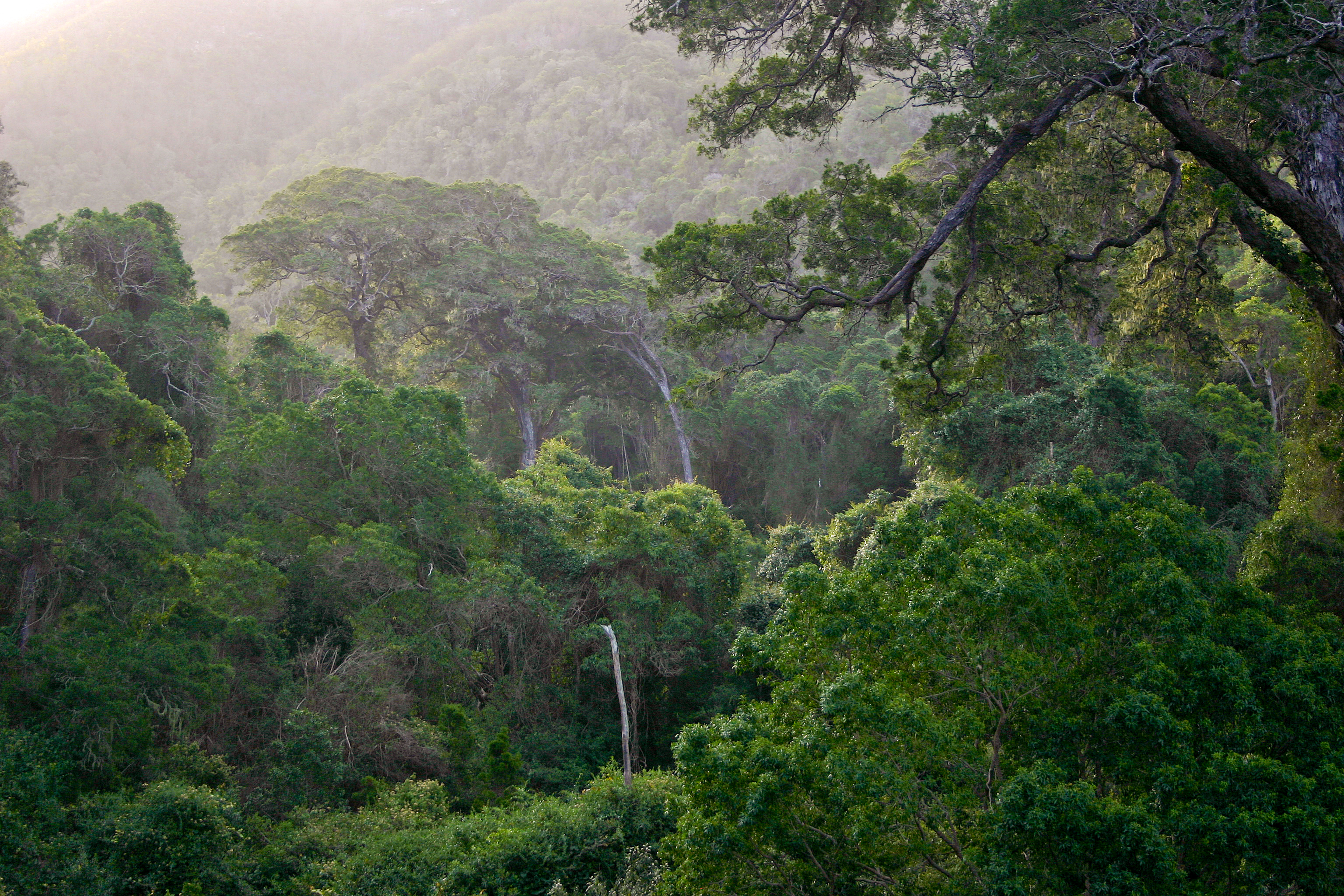 Afromontane forest at Nature's Valley, Southern Cape, South Africa. Large trees in image are Yellowwood (Afrocarpus falcatus=Podocarpus falcatus)